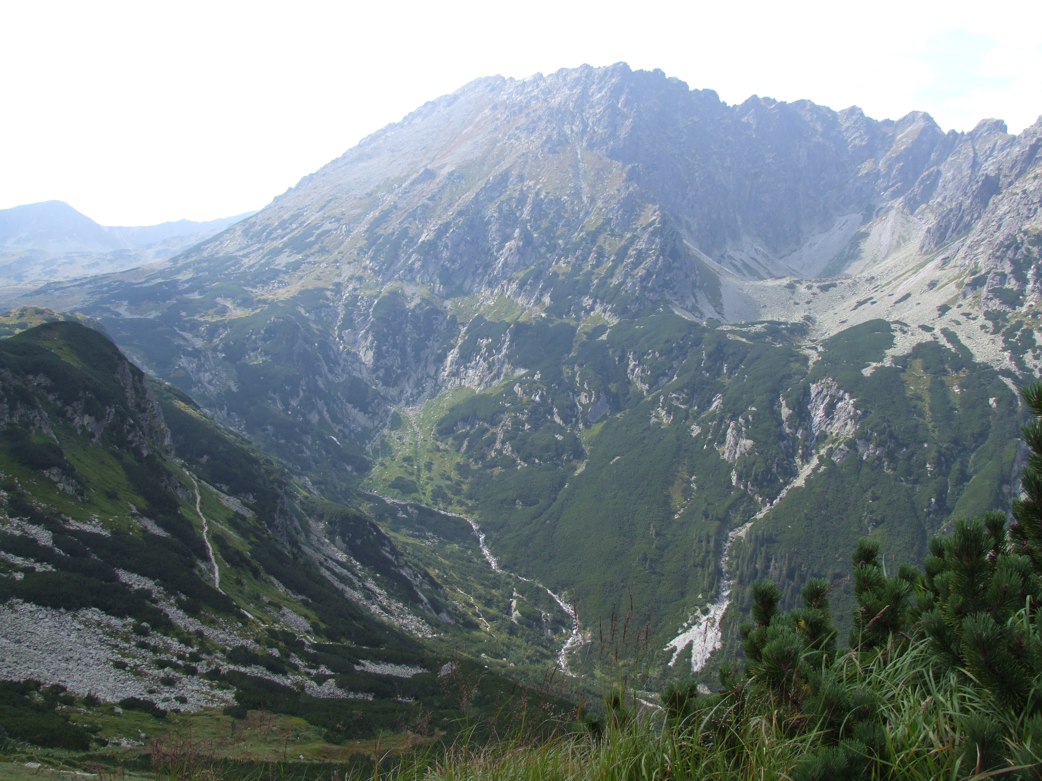 Roztoki Valley from a mountain route towards Morskie Oko tarn (High Tatras, Poland); also visible: Granaty and Buczynowe Turnie (mountain ranges), and Buczynowa Dolinka valley (upper right)